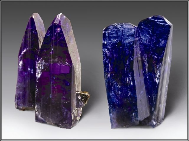 Zoisite Locality: Merelani Hills (Mererani), Lelatema Mts, Arusha Region, Tanzania (Locality at ) Size: small cabinet, 9 x 6 x 4 cm TANZANITE Rarely do you find pristine gem tanzanite crystals, in this size, with such sharpness to them. High lustre is common enough, but the glassy finish, the top reflective lustre as you see here (note there are no areas where it does not reflect, showing a more matte surface), is uncommon. More rare is to find such crystals with a high gem value content AND naturally intense colors on all 3 axes, without being heat treated first. More rare yet - well, try finding TWO such fine crystals, each pristine, similar in size, and both with the top color intensity on all 3 axes - and stick them together. This shockingly 3-dimensional cluster is just such a beast: a cluster of two of the finest intense-colored natural tanzanite crystals I have seen. They are joined in such a manner as to maximize the 3-dimensional geometry of the specimen, spacing the crystal masses from each other to give the piece a maximal presence. Note in the side-by-side photo how the relational geometry between the two crystals is so dramatic in each axis, that the photos, shown alone, actually LOOK LIKE THEY ARE OF DIFFERENT SPECIMENS. This is an Iconic mineral specimen in every sense, memorable among a huge crowd of good things on the market, and should becaome one of the key pieces in a collection. PHOTOS BY JOSEPH BUDD. Comes with custom base for display. Illustrated, Rocks & Minerals article on dichroic minerals